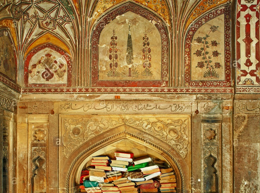 नक्काशी शाही मस्जिद